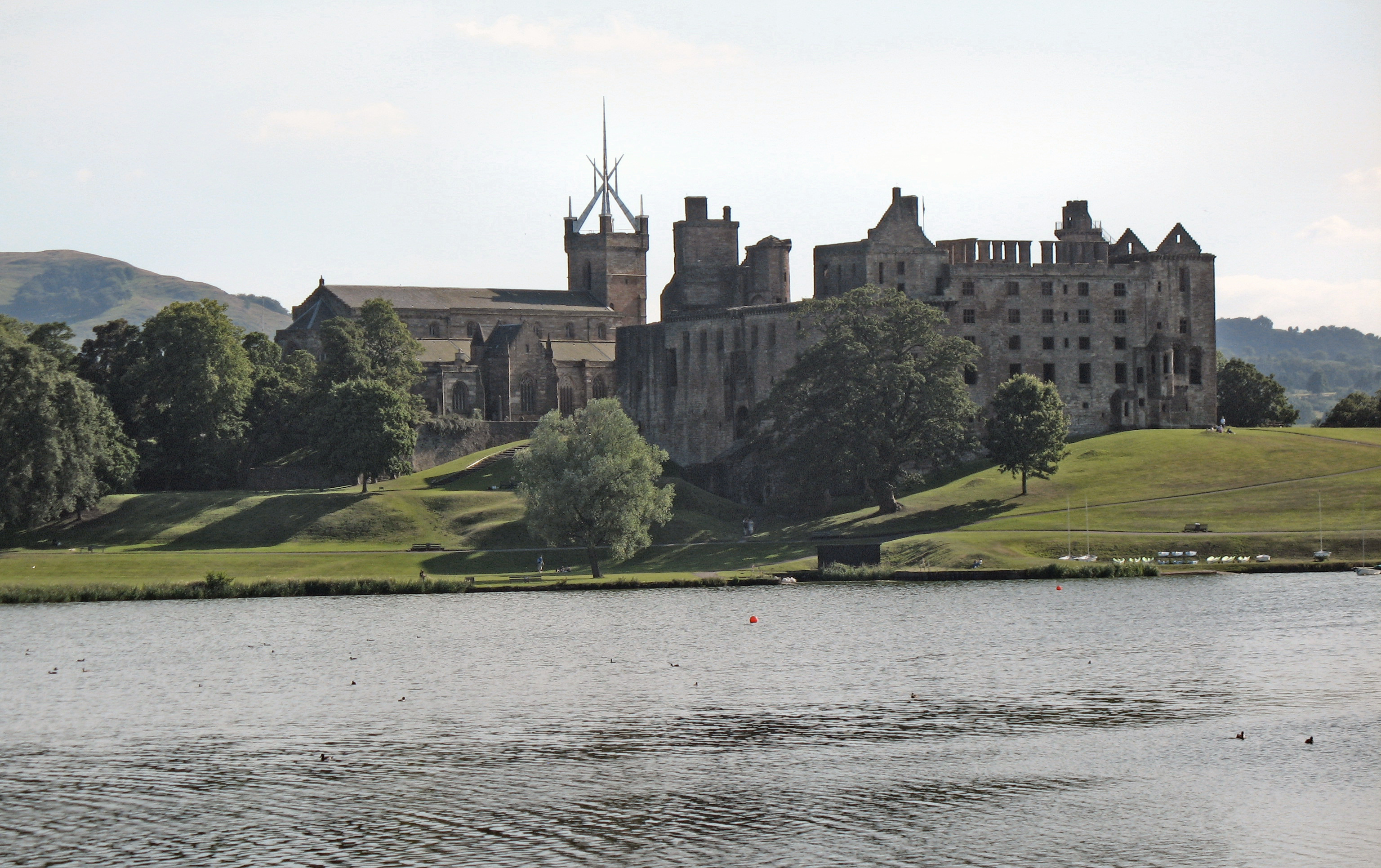 Linlithgow Palace, north-eastern aspect